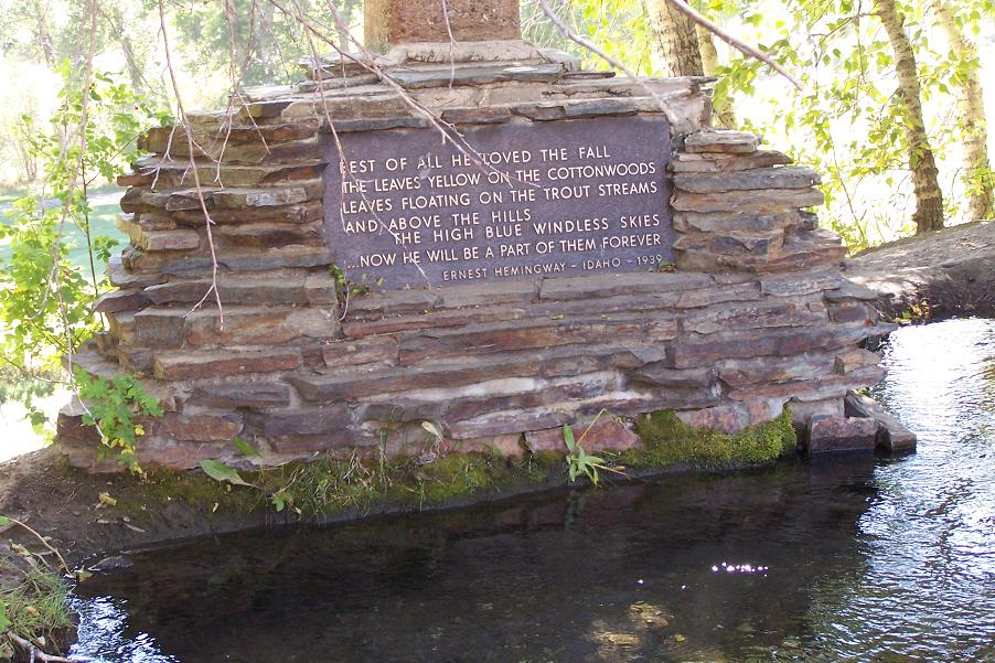 Hemingway memorial, Sun Valley, Idaho, 2009